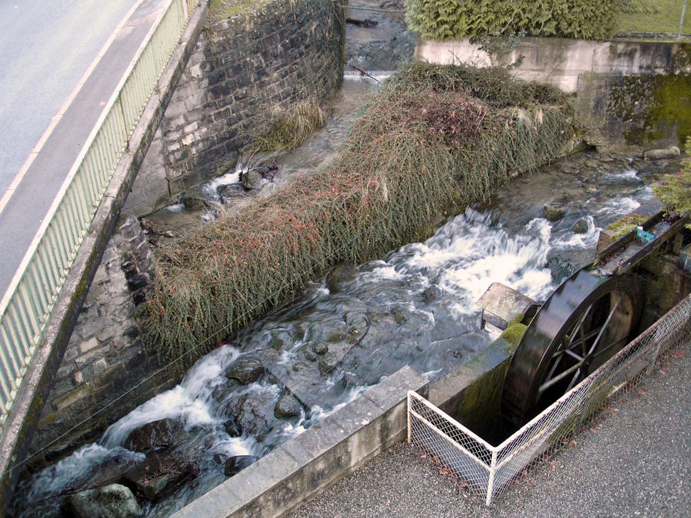 The Stiglbach in Haselstauden